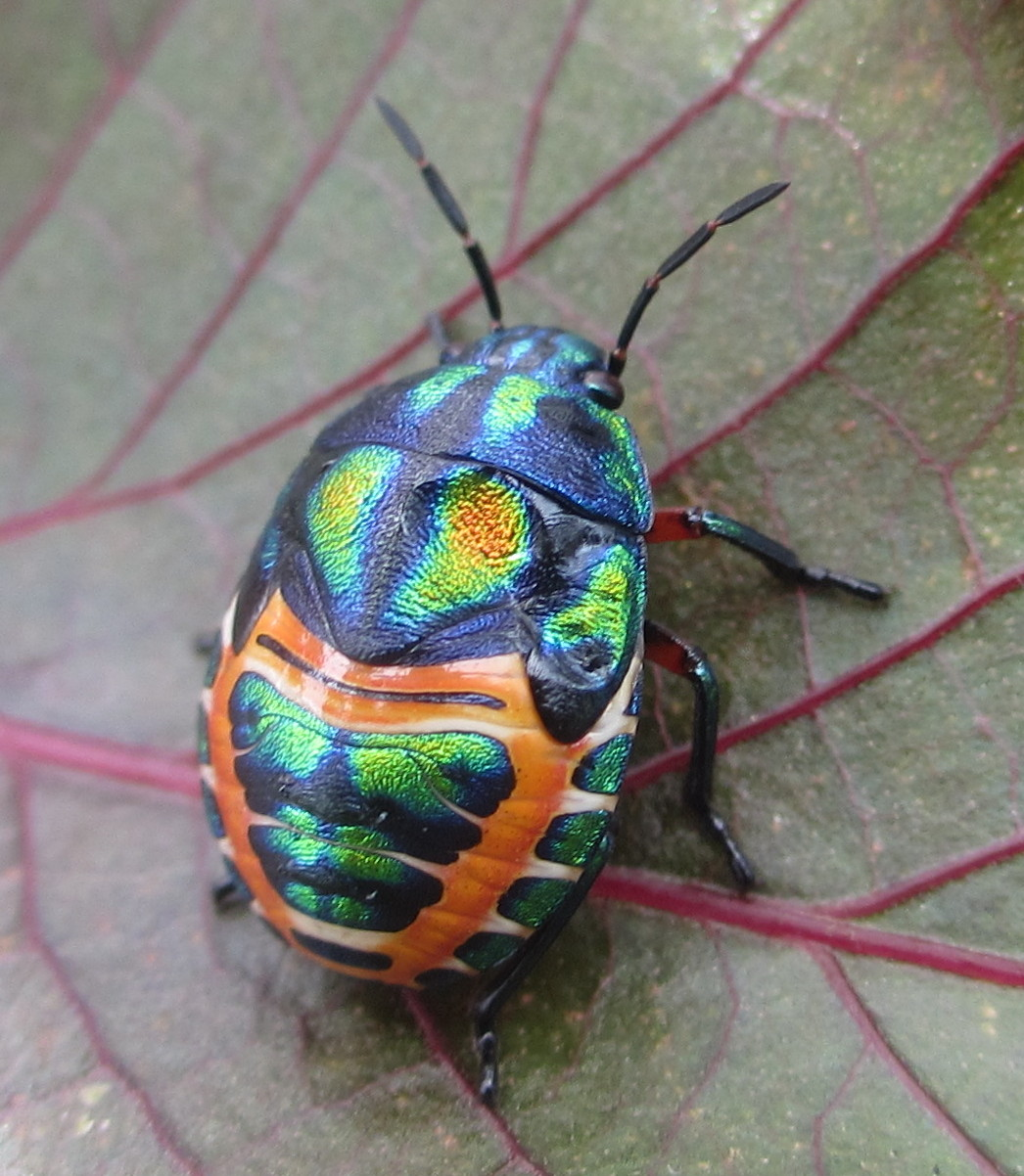 Calidea dregii (family: Scutelleridae, Hemiptera) on a leaf of Jatropha gossypiifolia. Pemba, Mozambique.